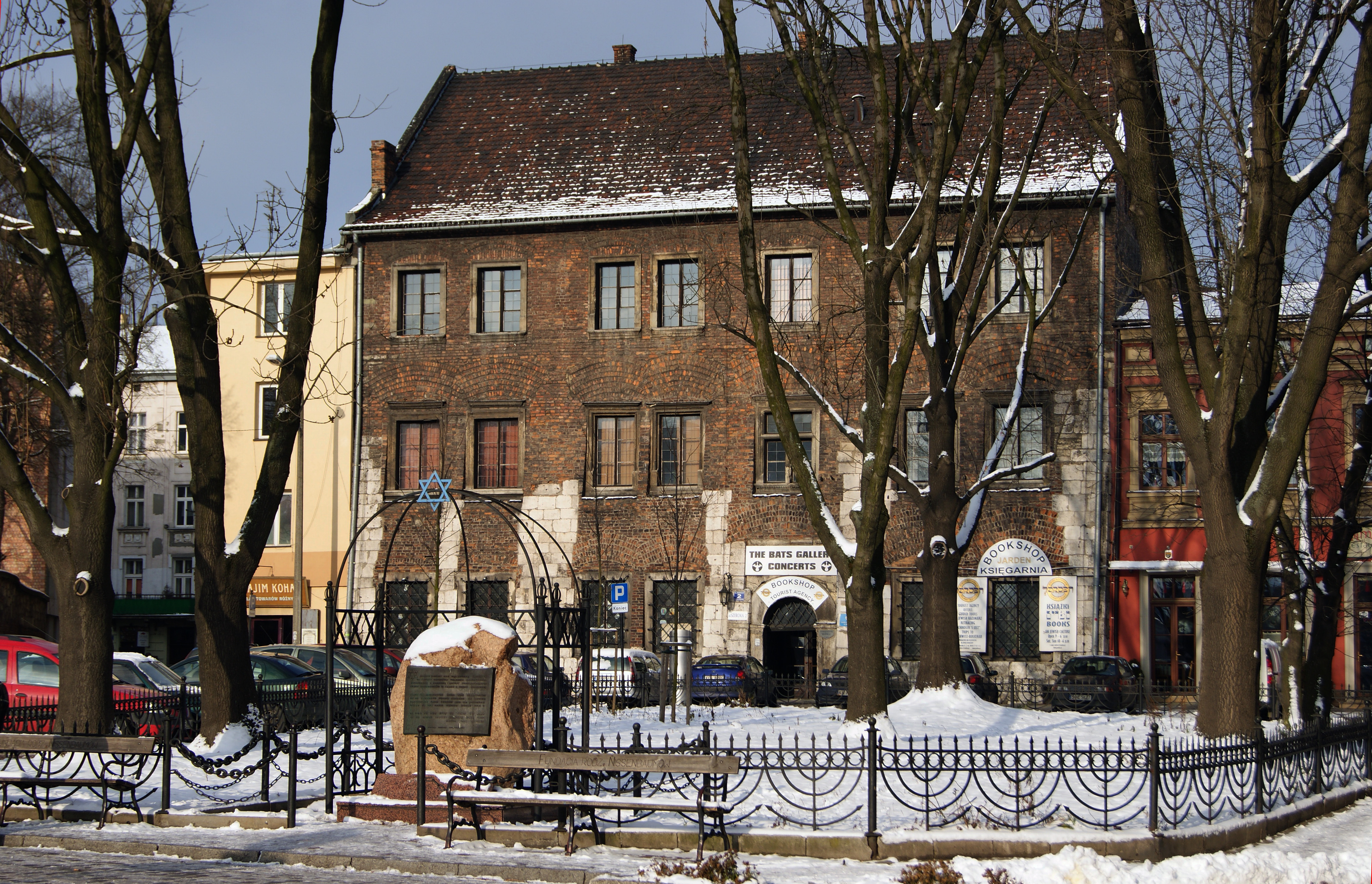 Szeroka street (square-oldest Jewish cemetery), Kazimierz, Krakow, Poland